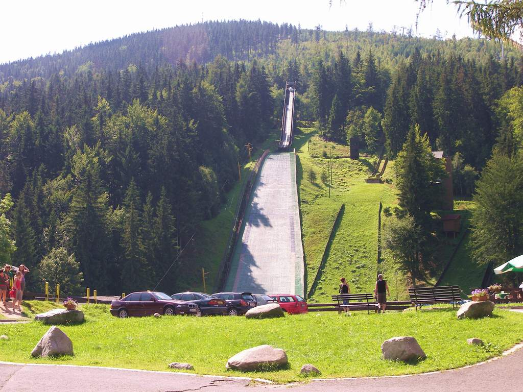 The smaller ski jumping hills in Harrachov